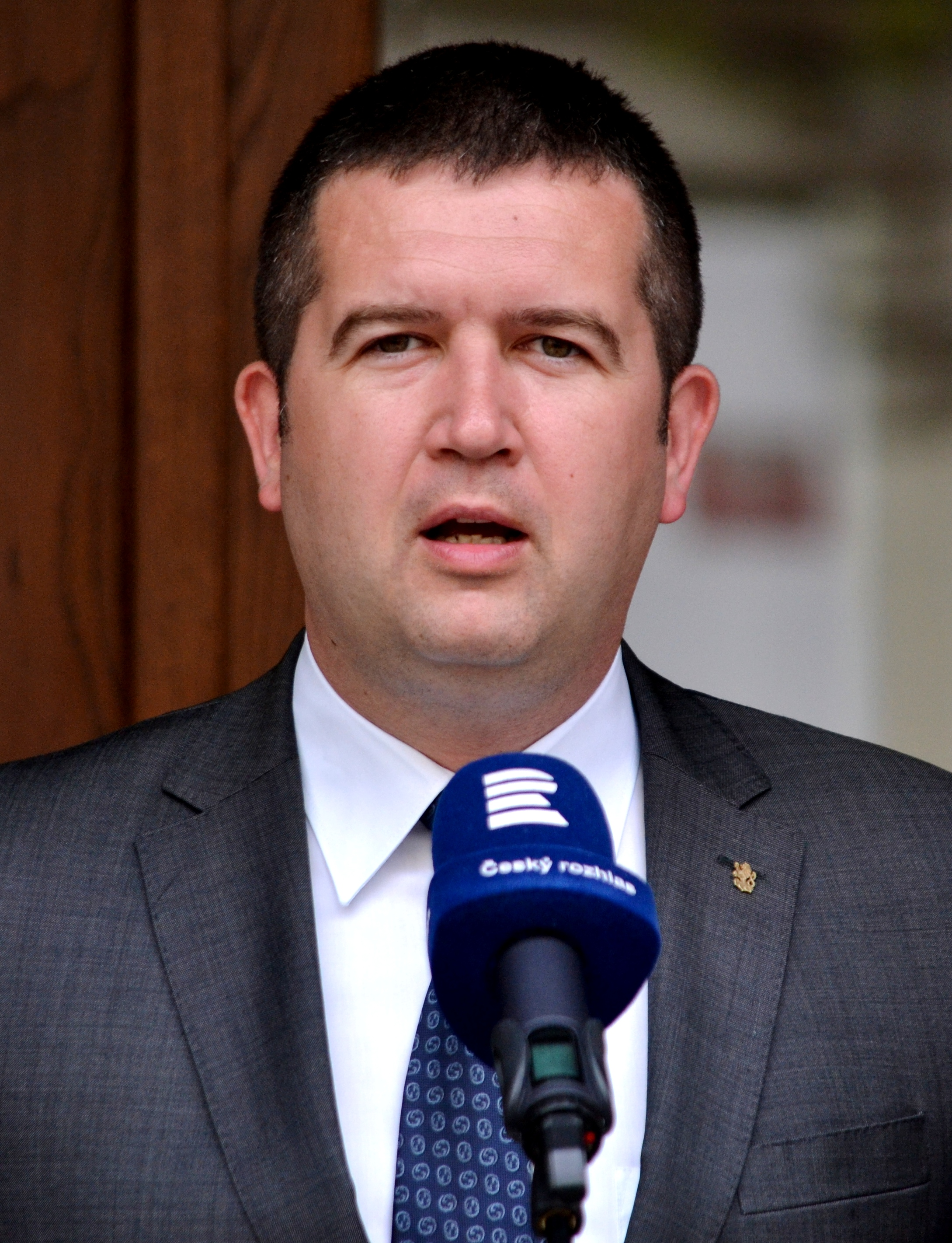 Jan Hamáček, President of the Chamber of Deputies of the Parliament of the Czech Republic